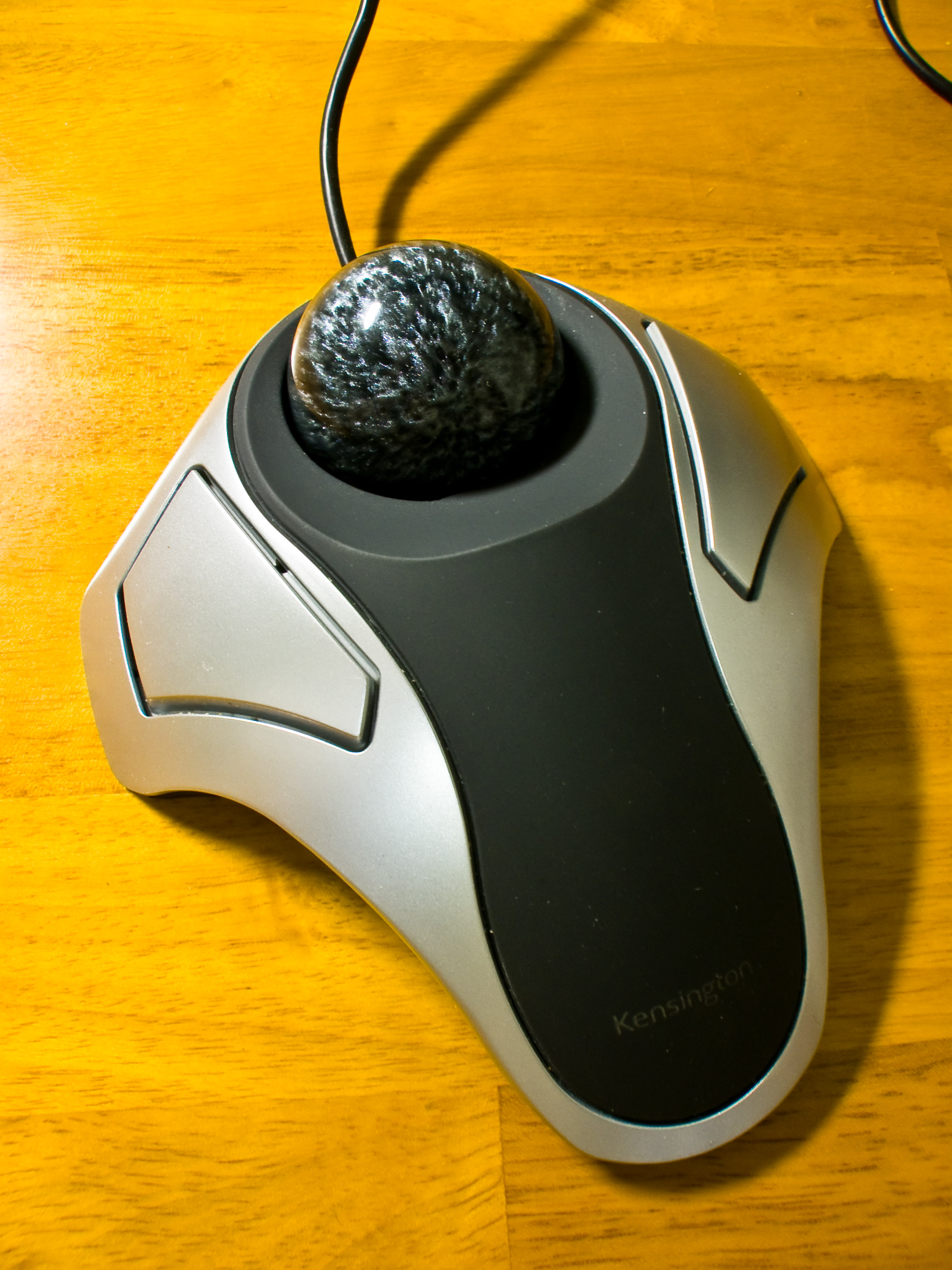 Kensington Orbit Optical, a forefinger type trackball.